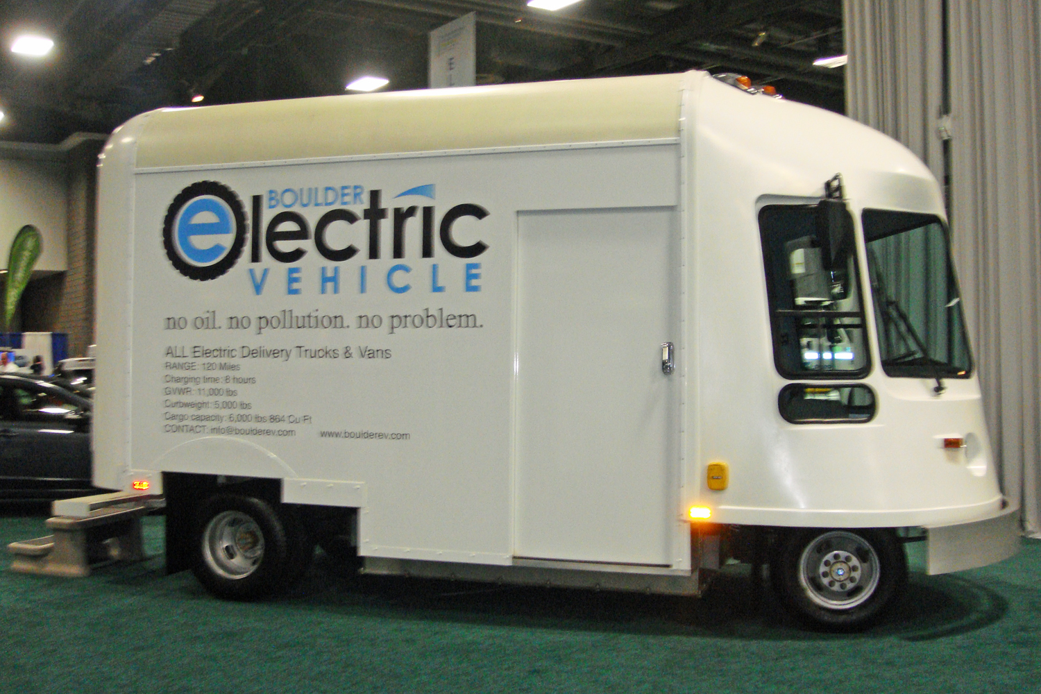 Boulder electric vehicle delivery truck at the 2010 Washington Auto Show